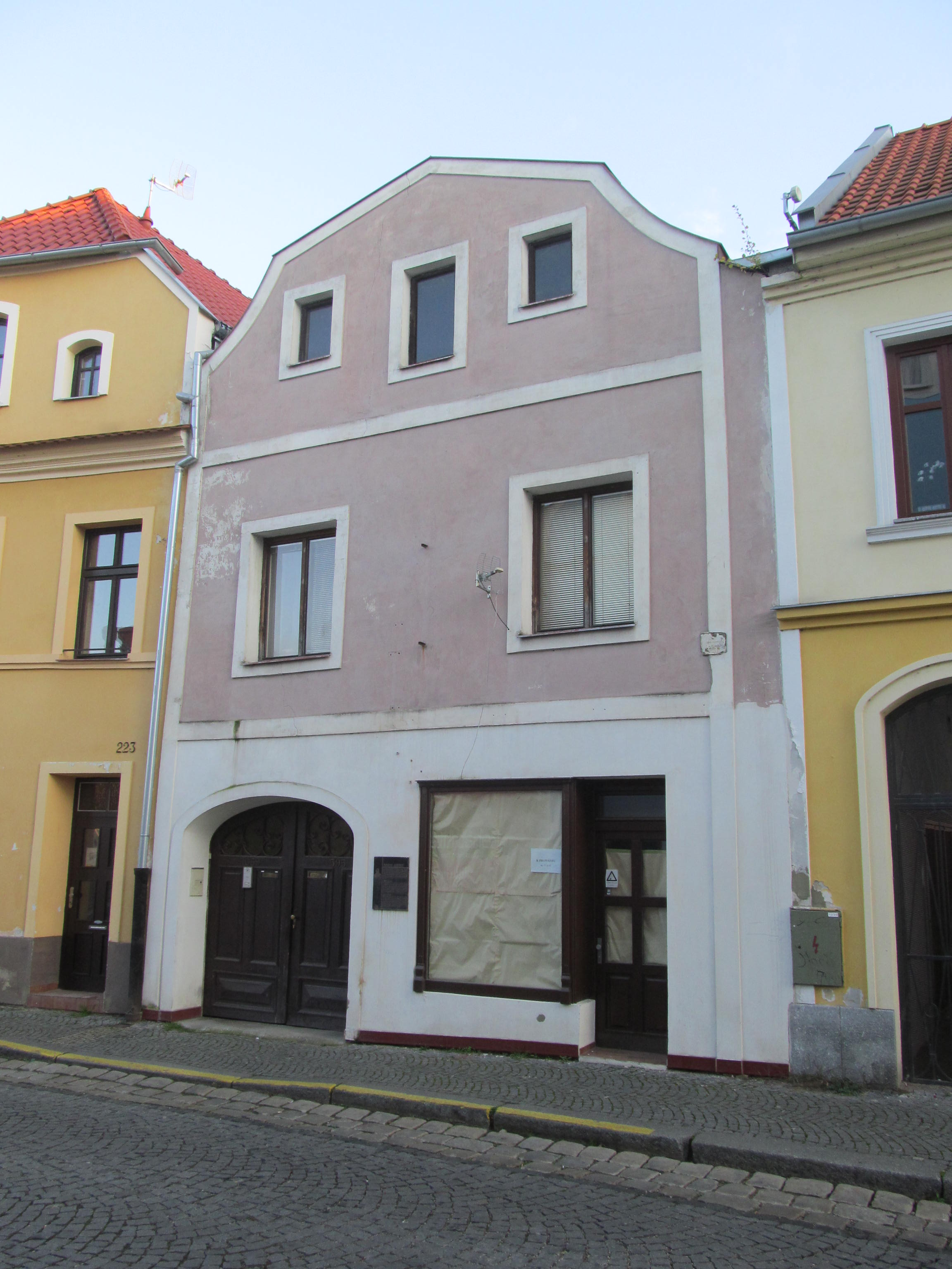 House Nr. 595 in Oblouková Street in Žatec. where lived historian Adolf Seifert